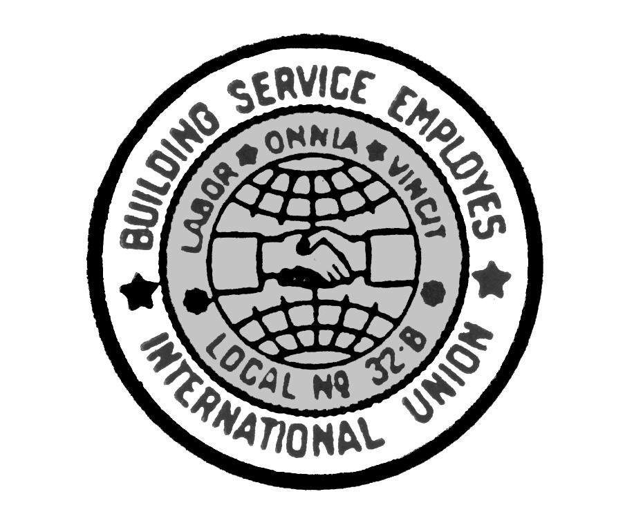 First logo for 32B in New York City